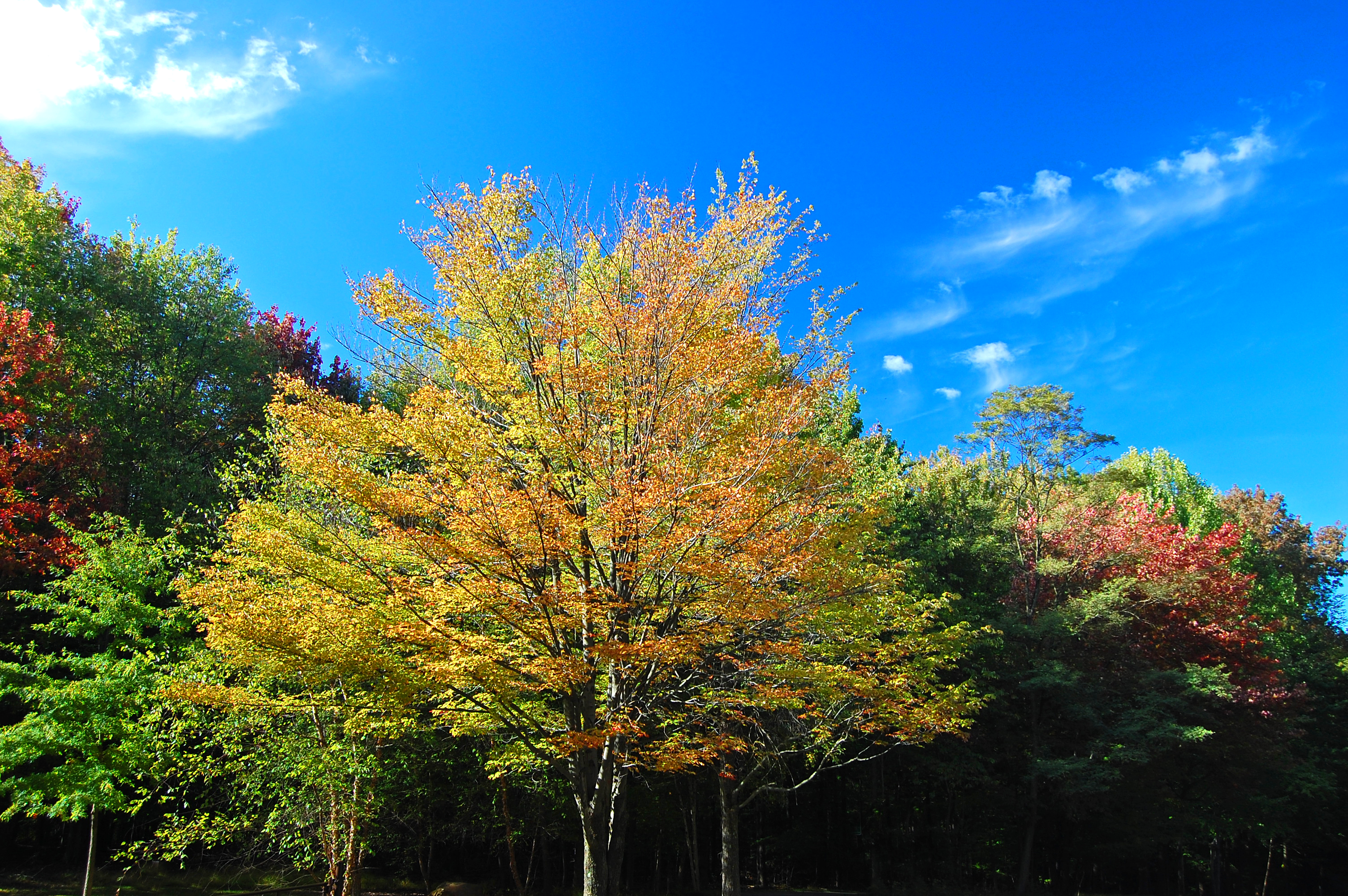 The region of Tinker's Creek before European settlement was extremely valuable to Native Americans. This area is one of the highest points of the state and lies near the watershed divide in Ohio. The nearby Cuyahoga River flows north to Lake Erie, while the Tuscarawas (through the Muskingum) drains to the Ohio River. This proved advantageous as transportation by canoe from Lake Erie to the Ohio River was possible with only one 8-mile overland portage. The old Indian portage path traveled from the Cuyahoga to the Tuscarawas. This area became an important trade center for both pioneers and Indians. Cheesemaking was one of the early industries of the area (which was often referred to as Cheesedom. Nearly as soon as the first settlers arrived did cheesemaking commence. By 1834, northeast Ohio cheese controlled the southern markets. Eventually, canal and rail transportation increased the area's importance. In the years prior to the state's acquisition of the land, the area was a private park known as Colonial Spring Gardens. The park was situated around a 10-acre, man-made lake and offered recreational opportunities. The state of Ohio purchased the land in 1966, and in May 1973, Tinker's Creek was dedicated as a state park. In the early '60s an intiative was narrrowly defeated that would have had this area dammed to create a 150 acre recreational lake. " Lake Shawnee". Intelligence prevailed and Tinker's creek is now in the registry of National landmarks.